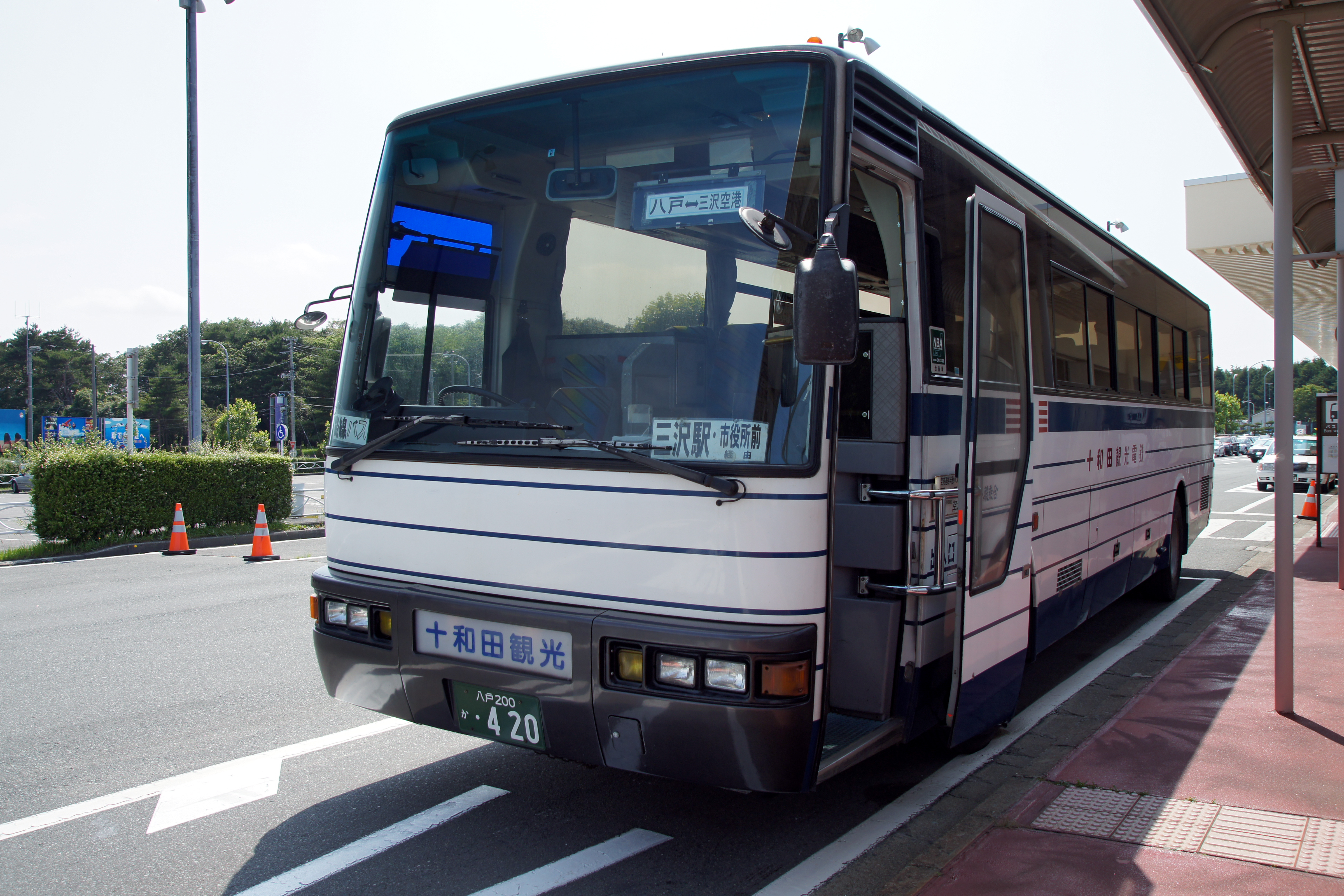 Misawa Airport in Misawa, Aomori prefecture, Japan